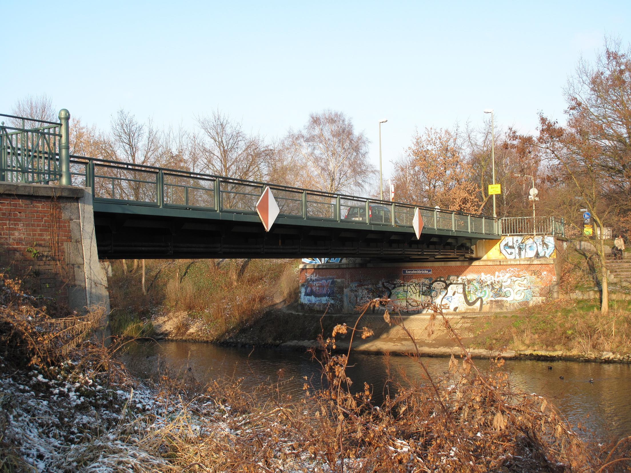 The Knesebeckbrücke in Berlin-Zehlendorf is a street bridge of the Teltower Damm crossing the Teltowkanal (canal). The present bridge was built in 1990.